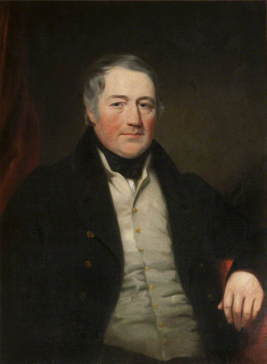 Oil painting on canvas, Armorer Donkin (1779-1851), 19th-century. Owned by the National Trust, Cragside.